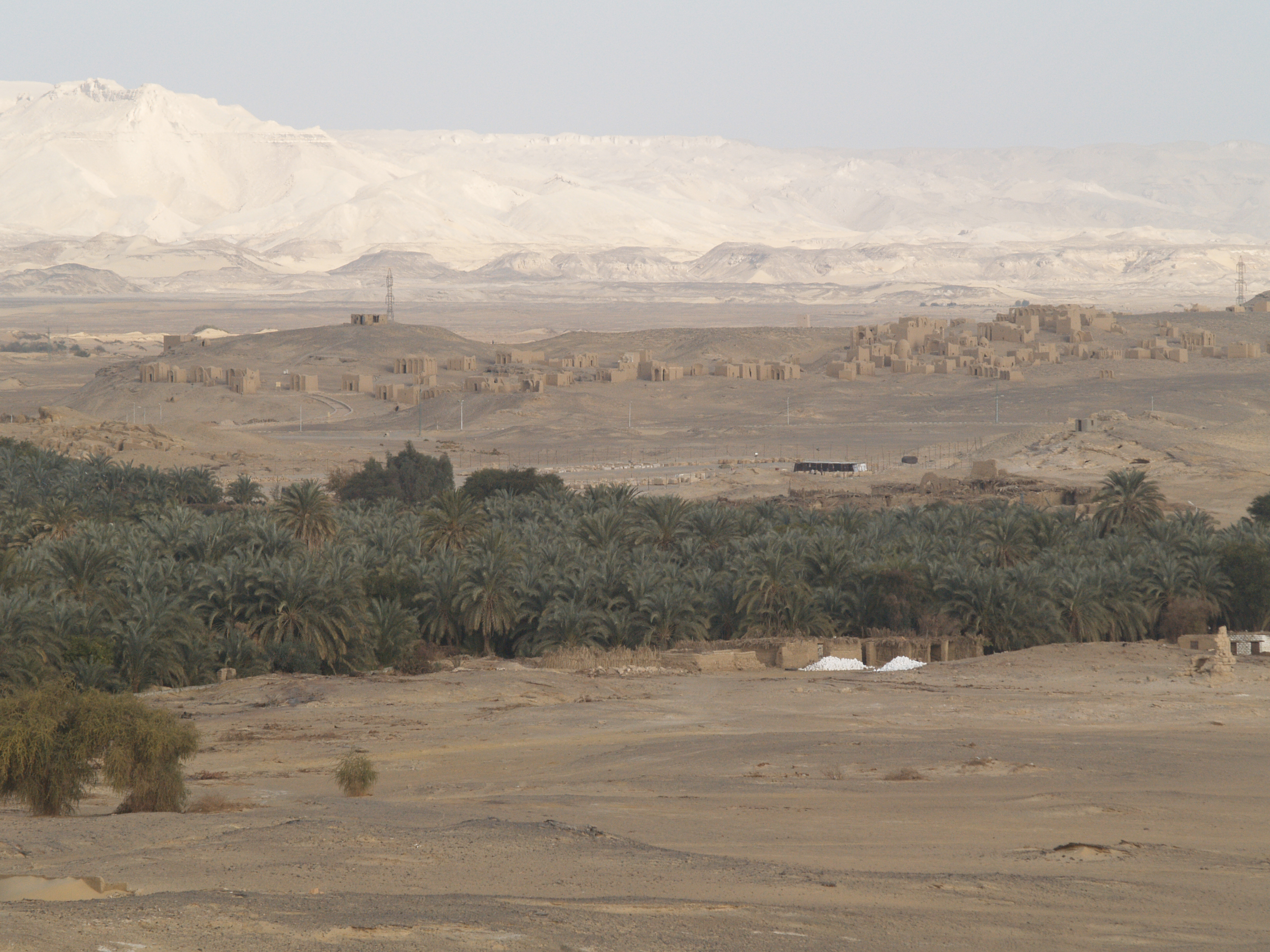 Al-Bagawat, also spelt as El-Bagawat, is an ancient Christian cemetery, one of the oldest in the world, which functioned at the Kharga Oasis in southern-central Egypt from the 3rd to the 7th century AD. It is one of the earliest and best preserved Christian cemeteries in the ancient world.